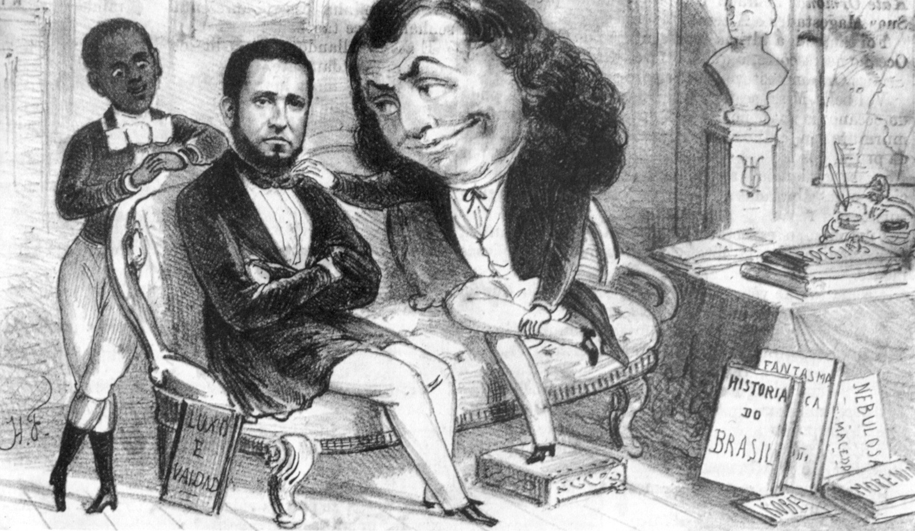 Joaquim Manuel de Macedo (center) is consoled by the symbol of Semana Illustrada magazine (right). The latter tells the Brazilian writer that he knows many friends in the 3rd district who would certainly vote on Macedo.